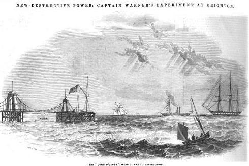 Illustration in the Illustrated London News of a "secret weapon" demonstration off Brighton, England, in 1844, a fraud set up by Samuel Alfred Warner. The vessel on the right, the John O'Gaunt, was blown up.